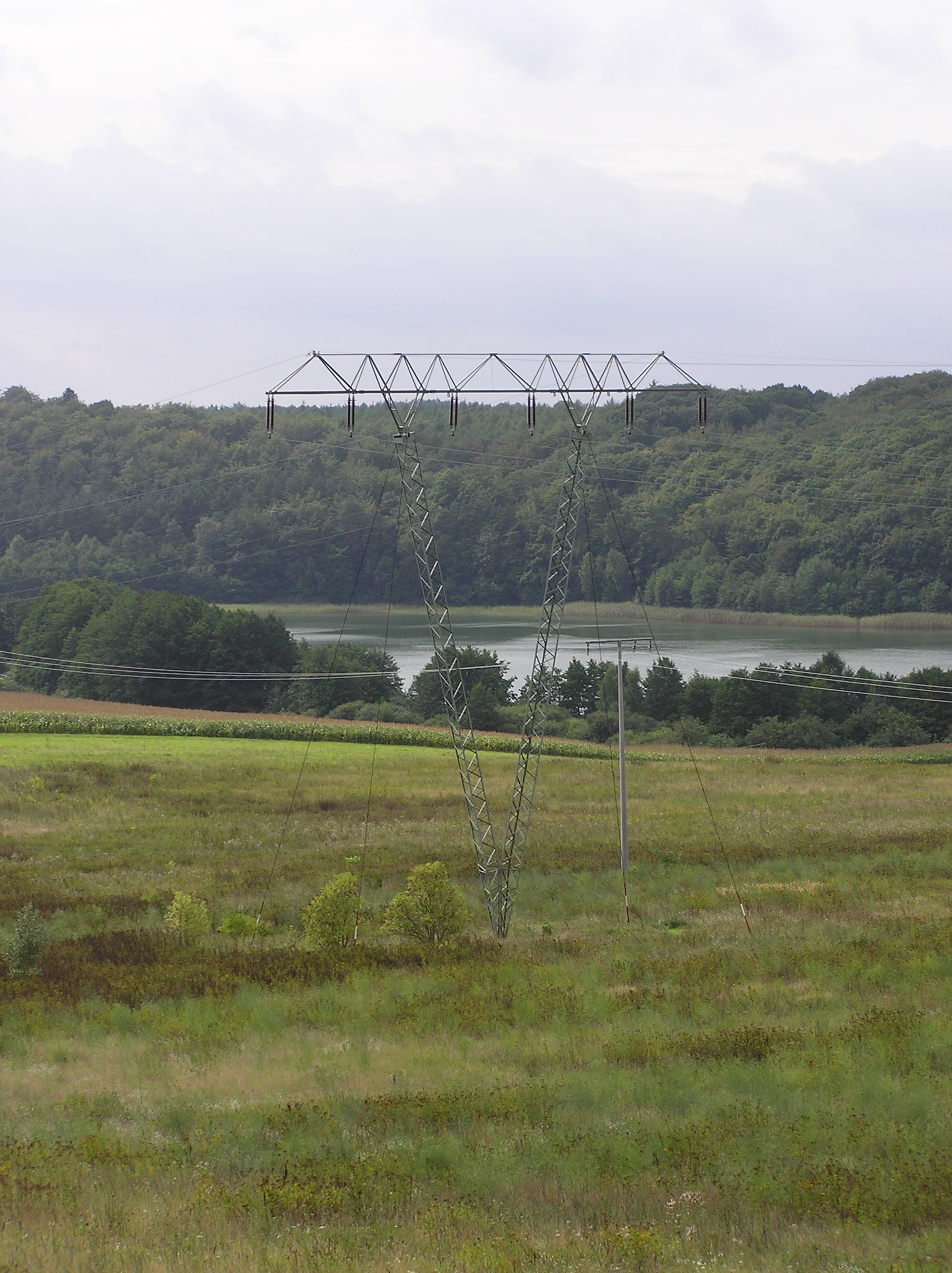 110 kV overhead power line Anklam–Bansin (Germany)